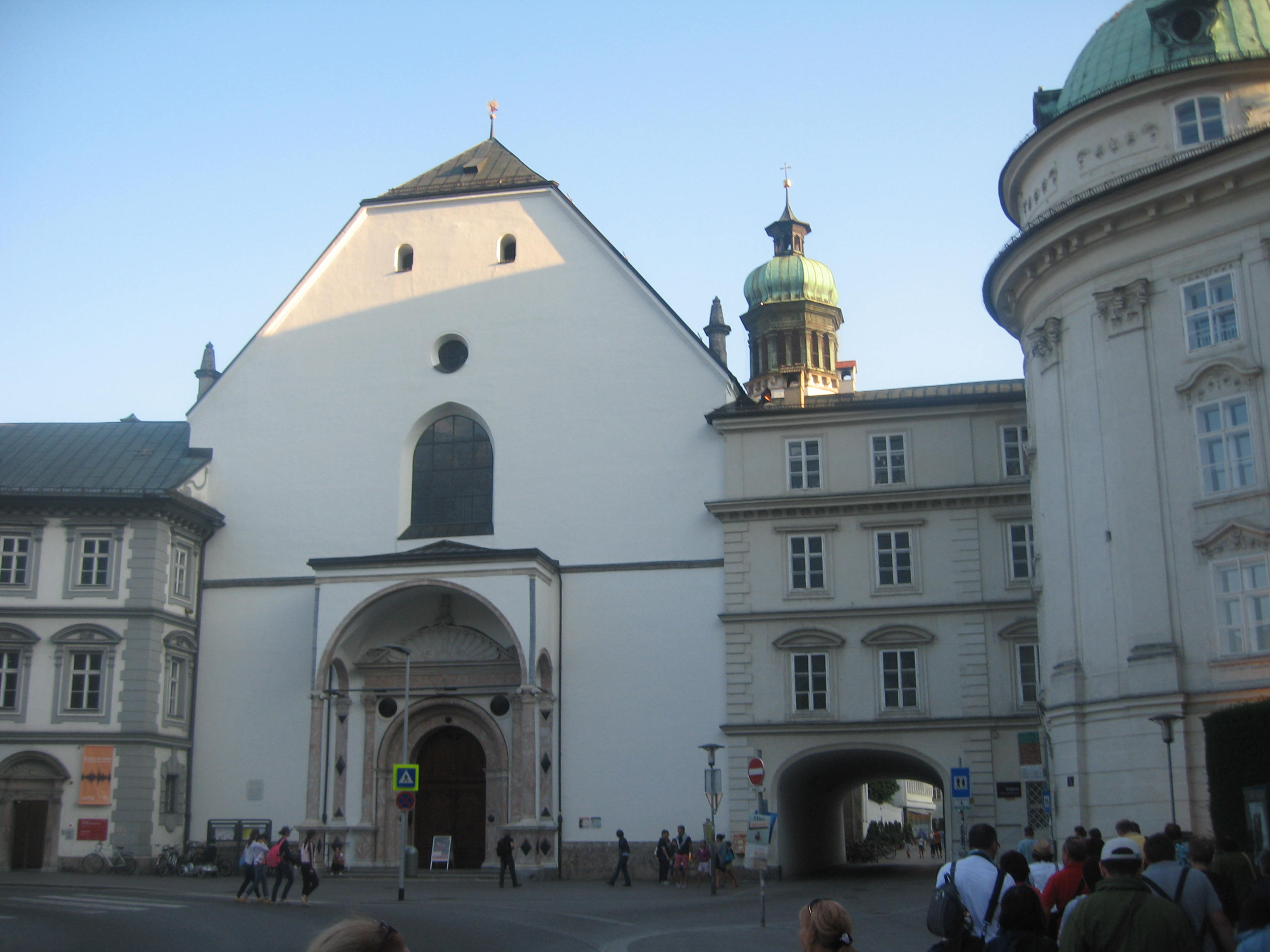 Hofburg Innsbruck